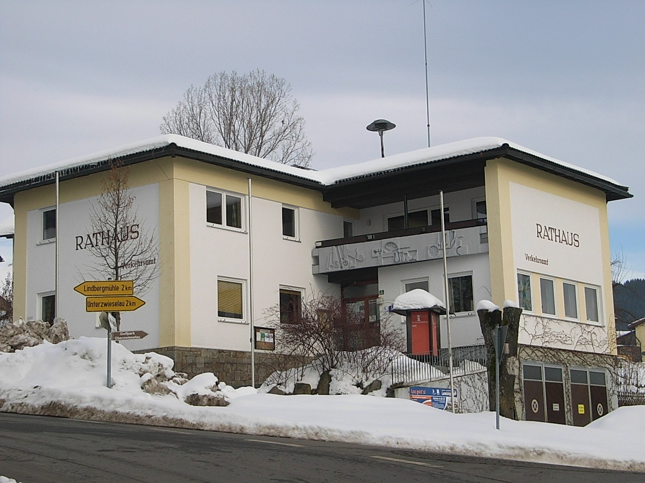 Lindberg, town hall from south-west.